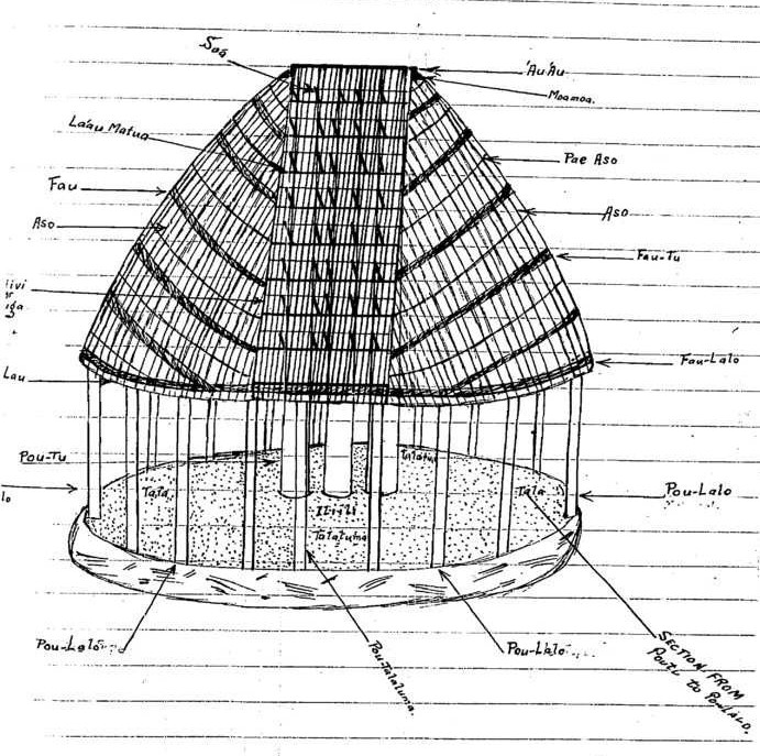 Samoa traditional house architecture diagram 1